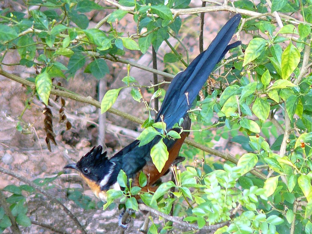 The Chestnut-winged Cuckoo is a breeding resident in the Himalayas and north-east India. It winters in Southern India and Sri Lanka. Otherwise very little is known of this bird. I was lucky to capture this one. It flew off before I could get any clearer shots of it.